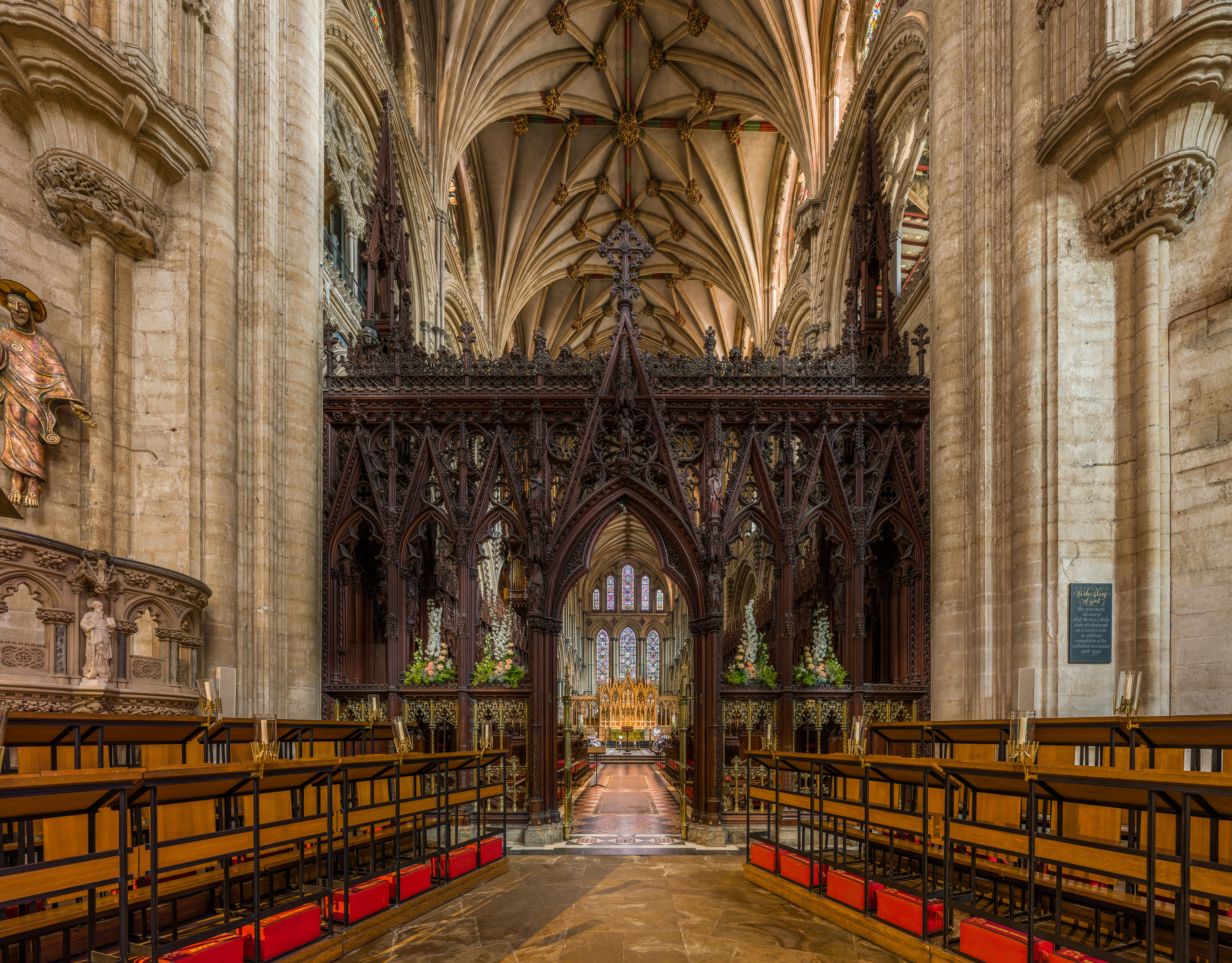 The rood screen as viewed from the nave looking towards the choir of Ely Cathedral, Cambridgeshire, England.